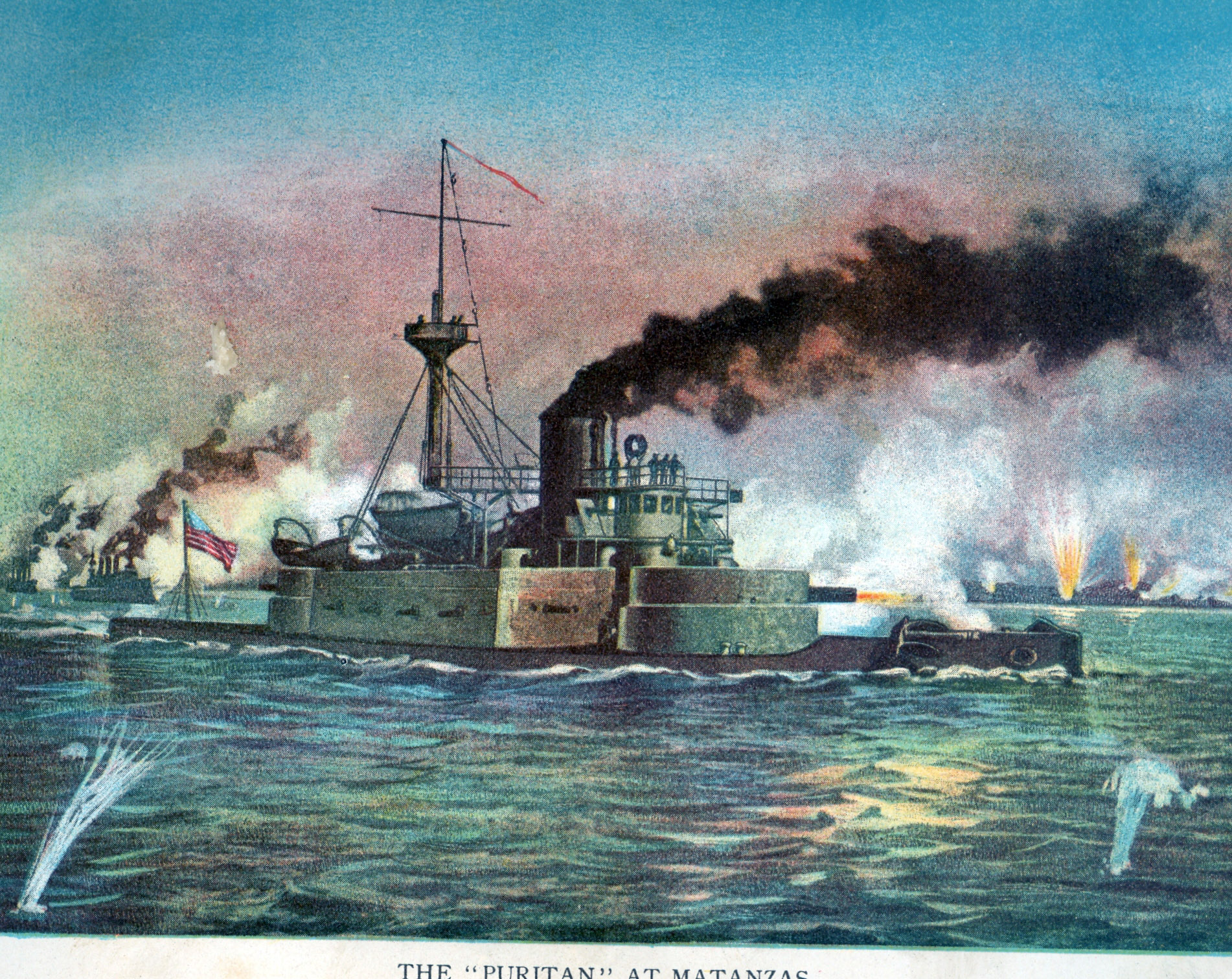 USS Puritan (1898)